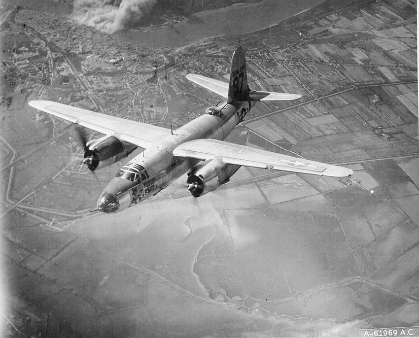 "Pancho and His Reever Rats" B-26G-5-MA Marauder s/n 43-34240 444th BS, 320th BG, 12th AF Shot down by AAA over Covigliano,Italy on August 23,1944. MACR 7997